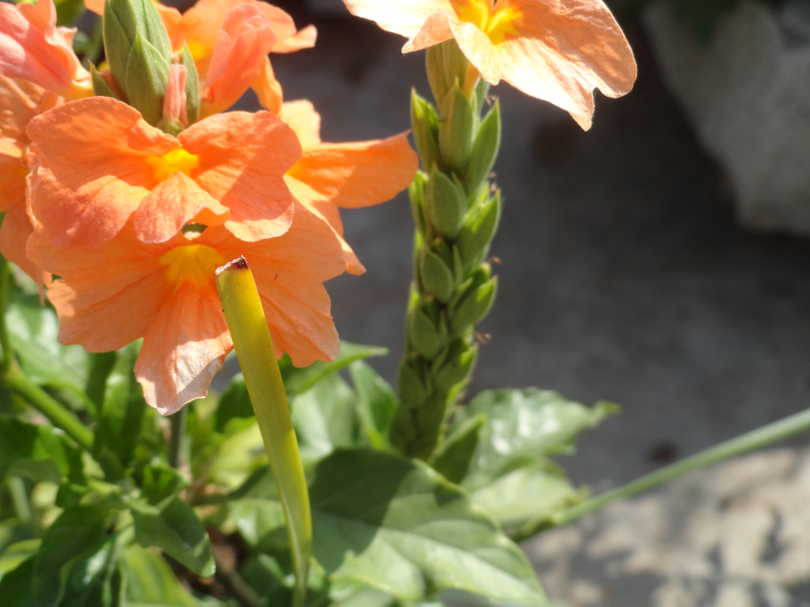 కనకాంబరం పువ్వులు